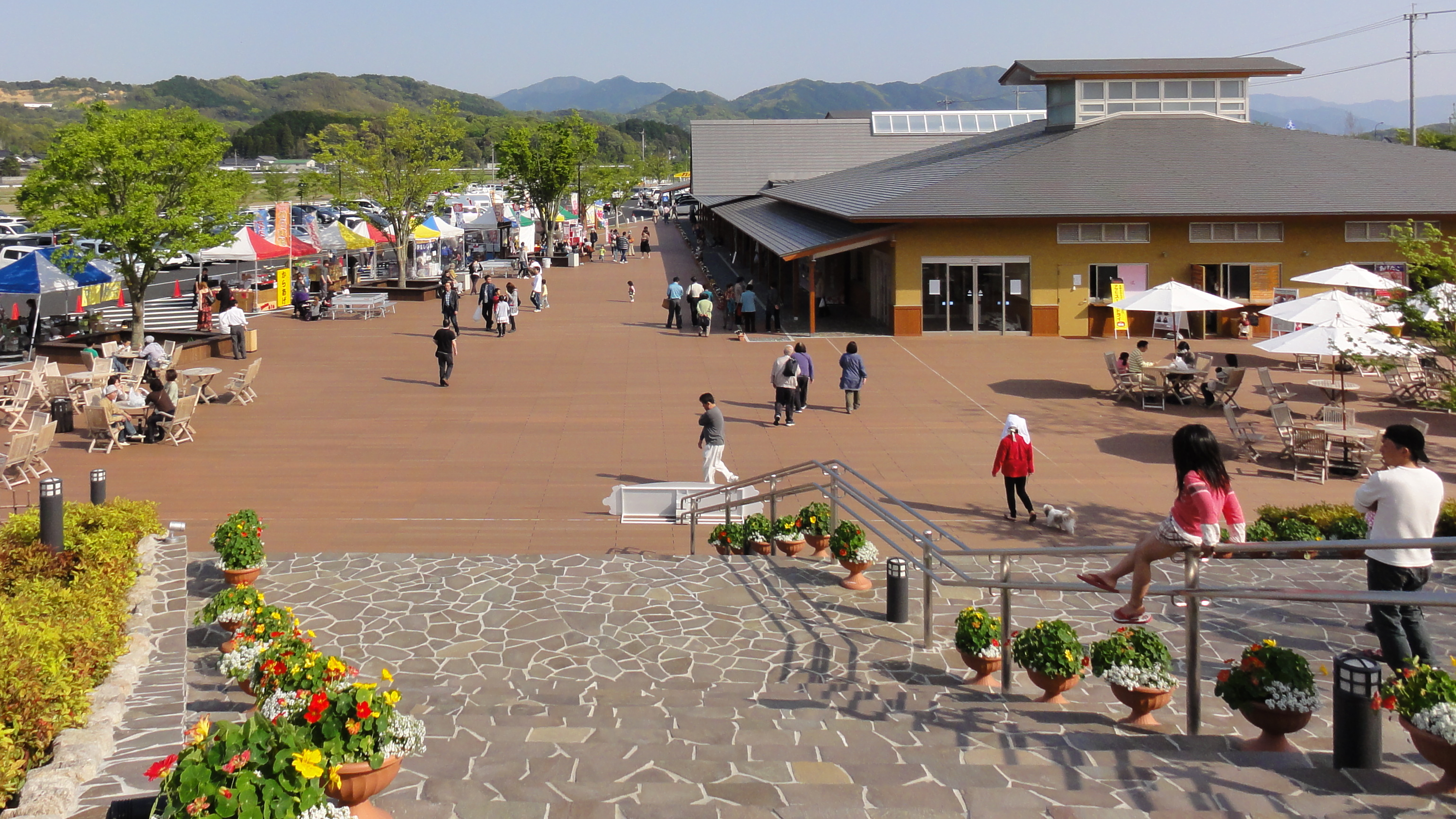 Ootou-Cherry blossoms road(Roadside station),Fukuoka pref..,Japan